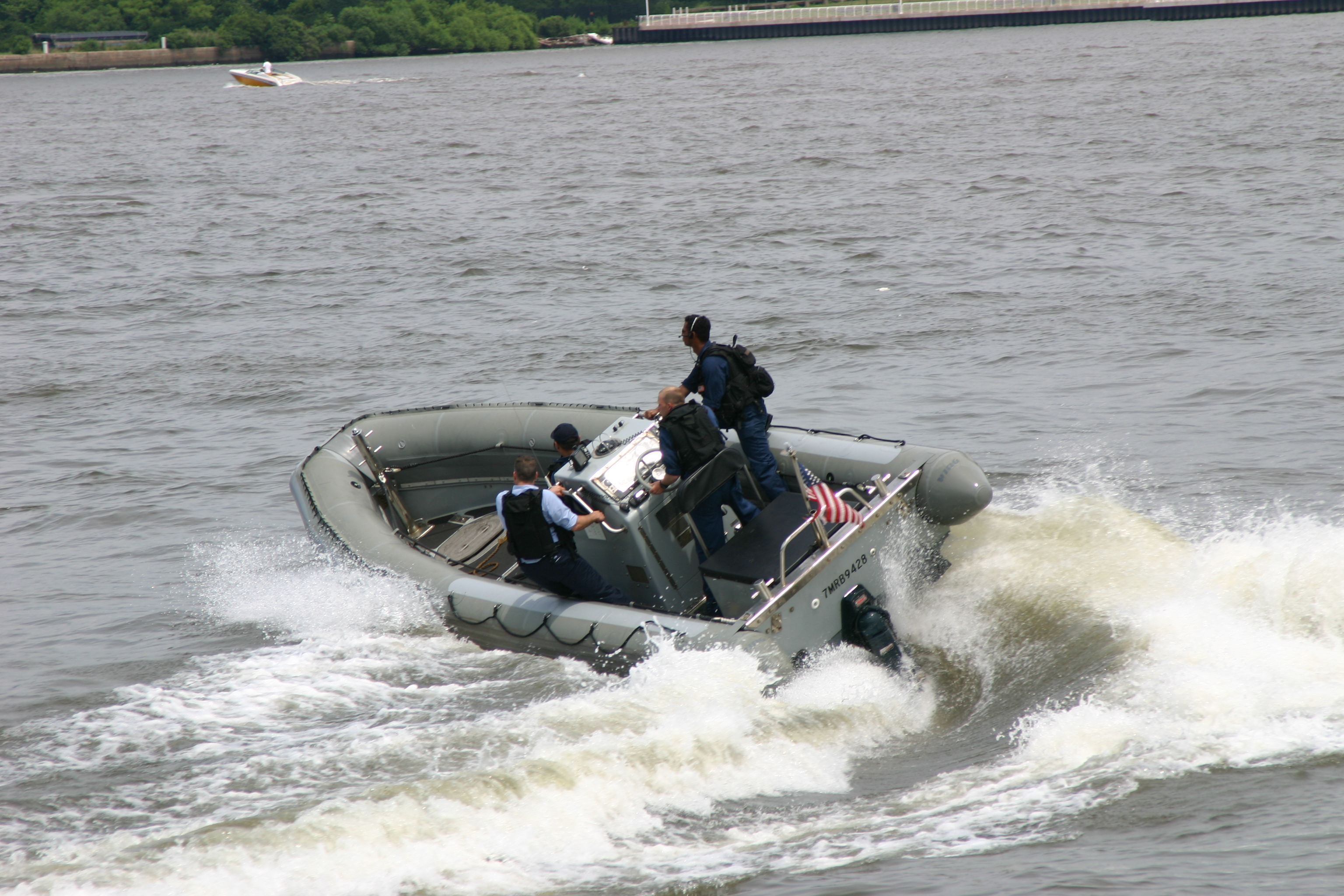 photo by: andrew aiello